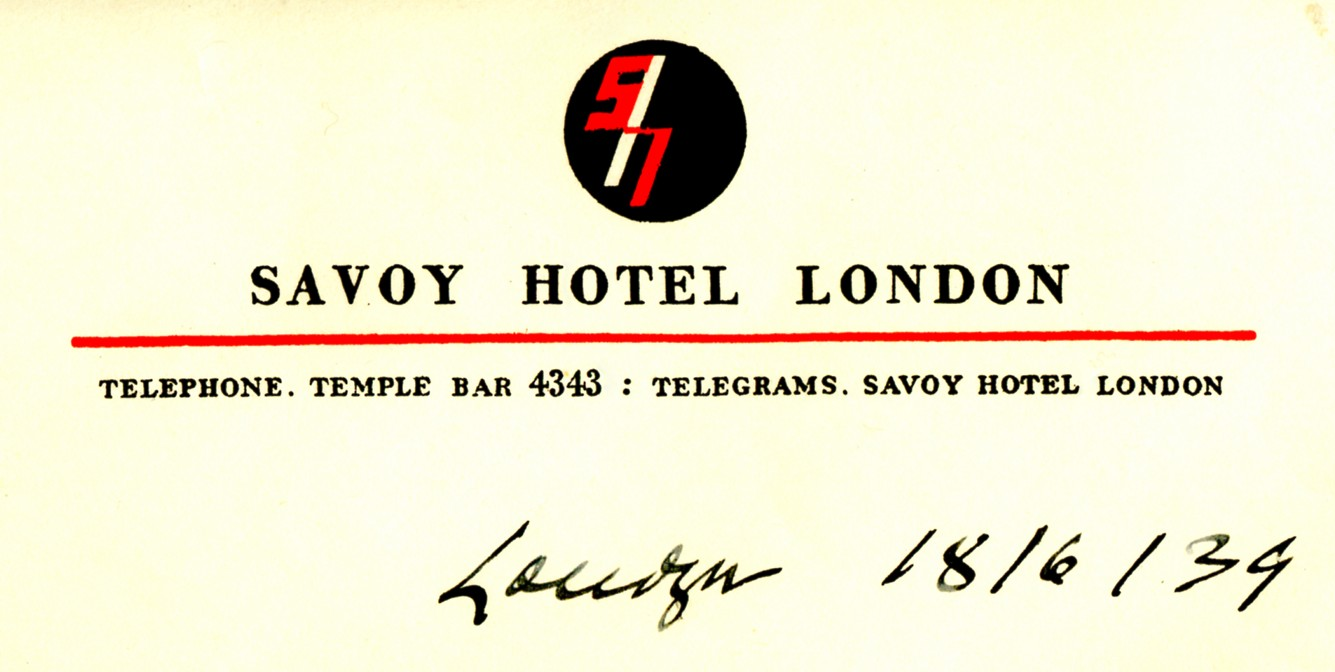 Logo of the Savoy Hotel on the headed paper. Letter dated June 18th, 1939 (written by Antoni Olszewski, Polish Ministry of Industry & Trade).